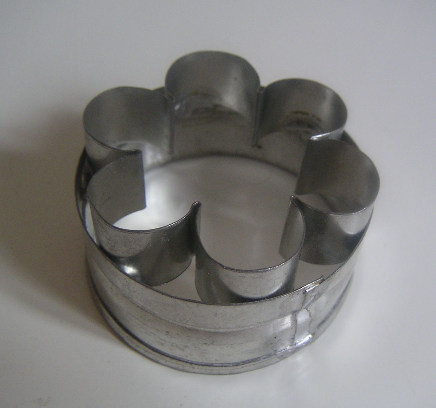 Tin to cut Minorquian cookies called 'pastissets'.